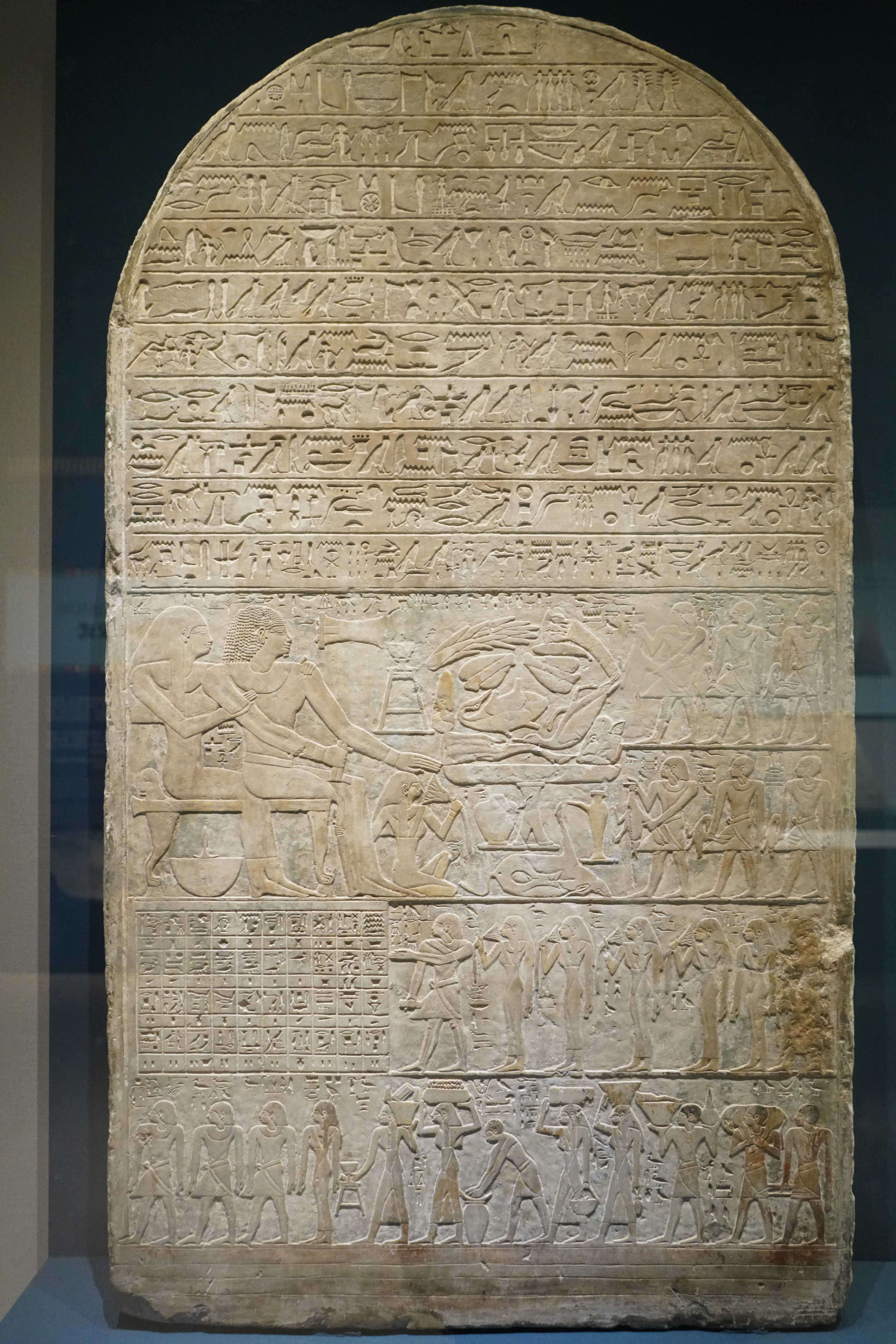 阿布考石碑 Limestone 12th Dynasty